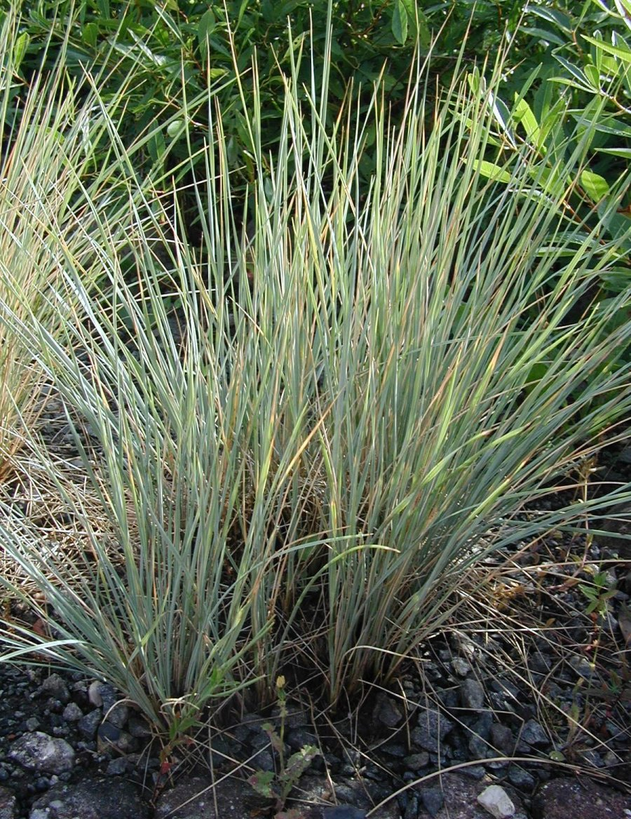 Helictotrichon sempervirens: Habit.